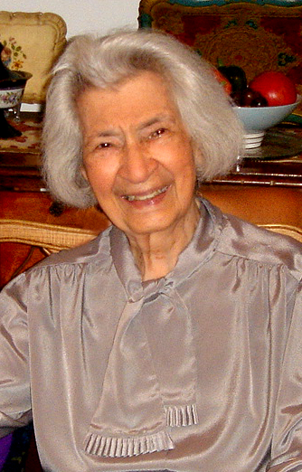 Composer Ana Mercedes Asuaje de Rugeles, 94 years old in this picture.